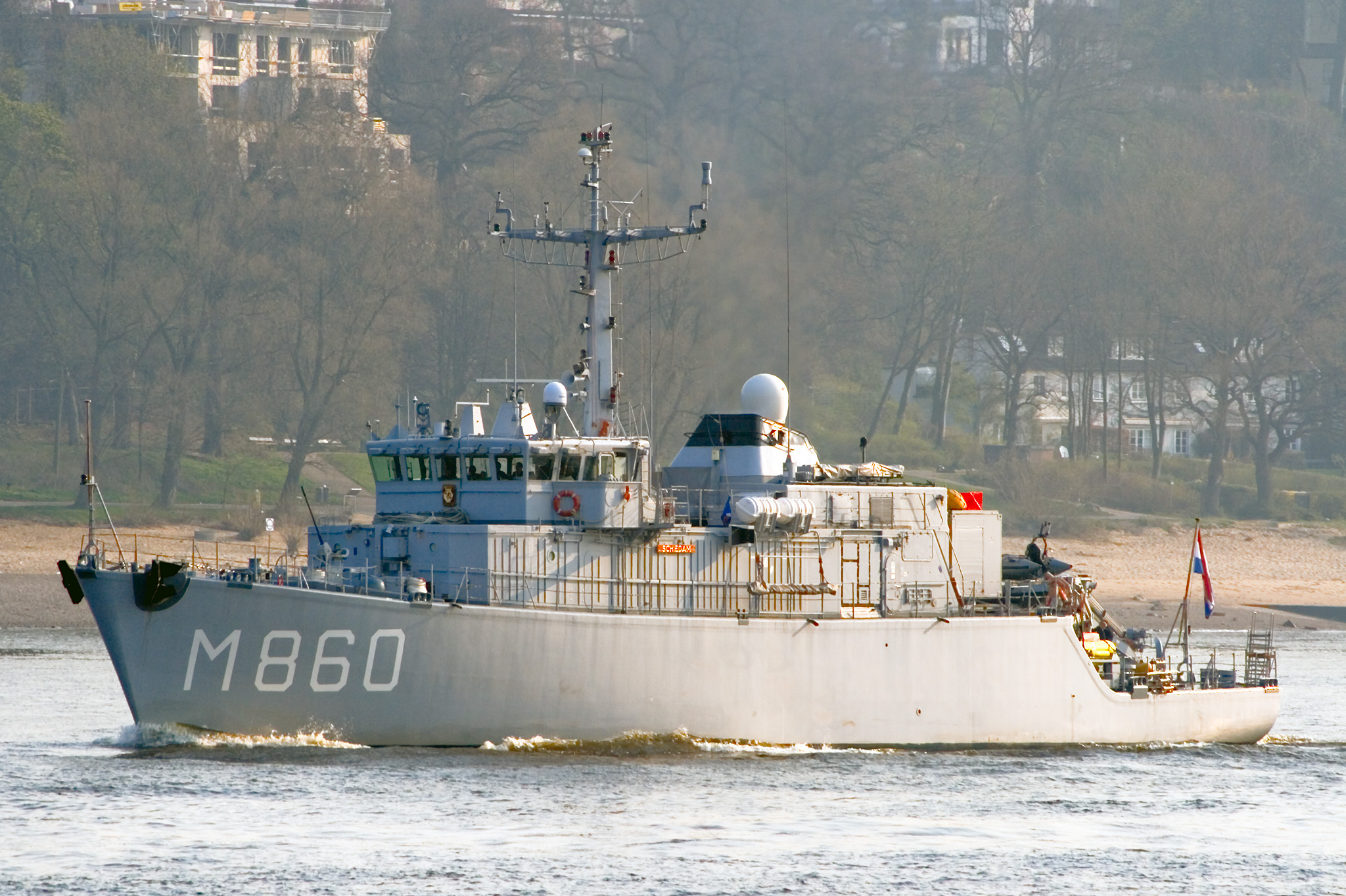 Minehunter HNLMS Schiedam (M 860) of the Royal Netherlands Navy on the Elbe River in Hamburg, Germany.